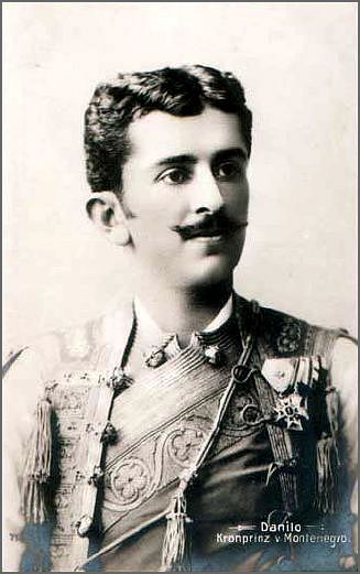 Danilo III